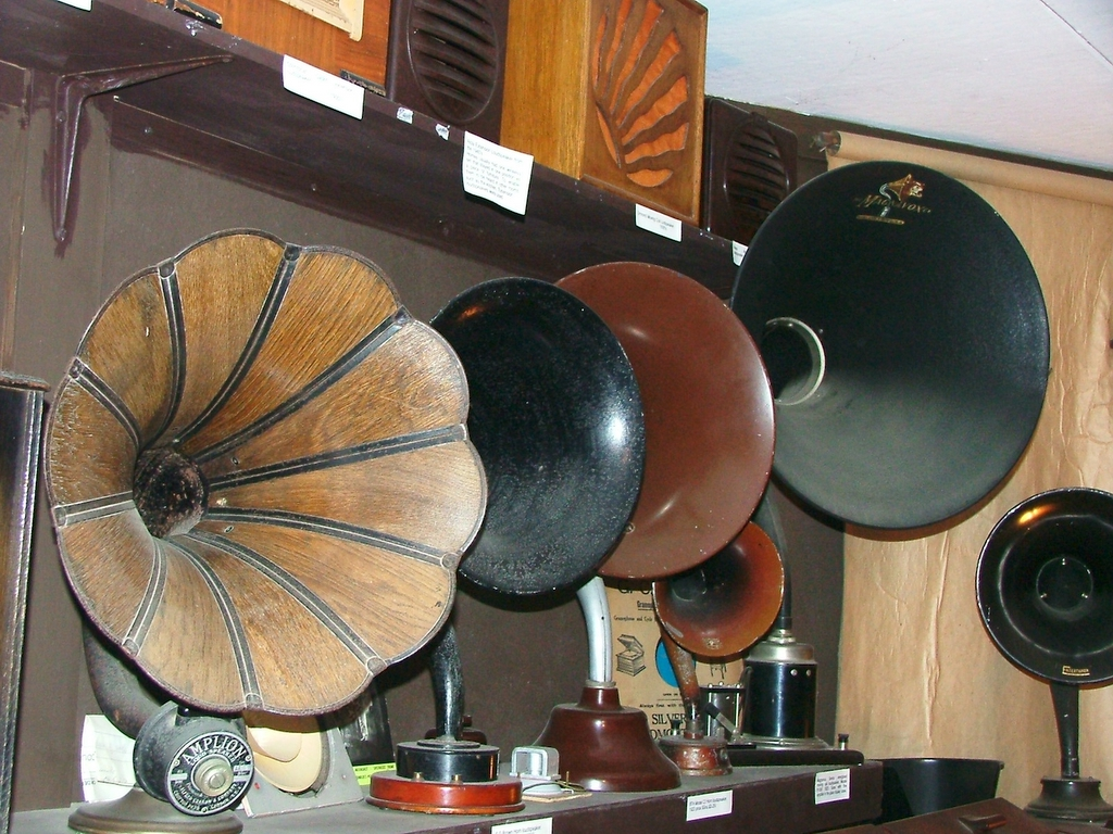 A radio shop in Amberley Working Museum, stocked with old radios and loudspeakers. The 6 speakers on the lower shelf are all horn loudspeakers from the 1920s. They consist of a small compression driver unit containing a small metal diaphragm vibrated by an electromagnet, creating sound waves. The sound is conducted to the open air through the flaring horn. The horn serves to improve the efficiency of the coupling between the diaphragm and the air, so they produce more sound power and are louder than cone speakers when driven by a given signal. The weak vacuum tube amplifiers in early radios couldn't produce much output power, and virtually all loudspeakers from the period used horns to achieve adequate volume. A disadvantage of horn speakers was that the frequency response dropped off below a certain cutoff frequency. Therefore they couldn't reproduce bass frequencies below the cutoff, causing them to sound "tinny". Permanent magnets of the time weren't very strong, so many speakers, such as the Magnavox (right), used electromagnets for the field magnets, usually powered by a 6V lead-acid storage battery.